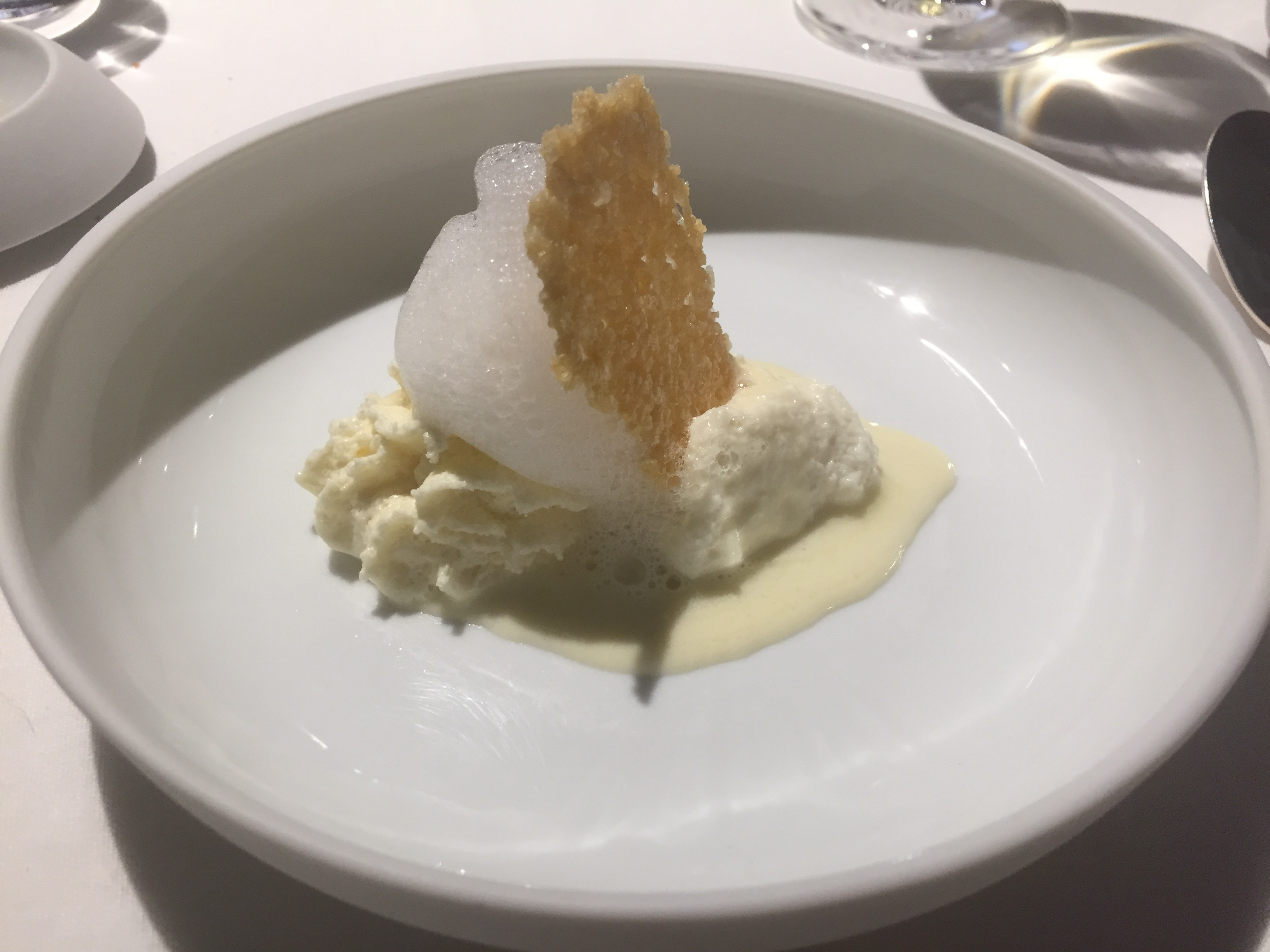 A signature dish at Osteria Francesca in Modena "Five ages of Parmigiano Reggiano in different textures and temperatures"